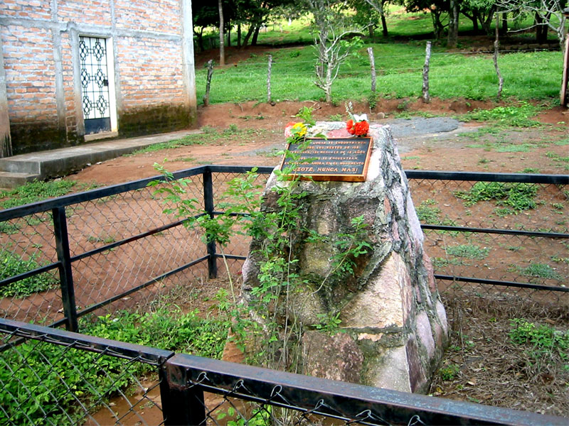 The site of the old, burned down church in El Mozote, Morazan, El Salvador.